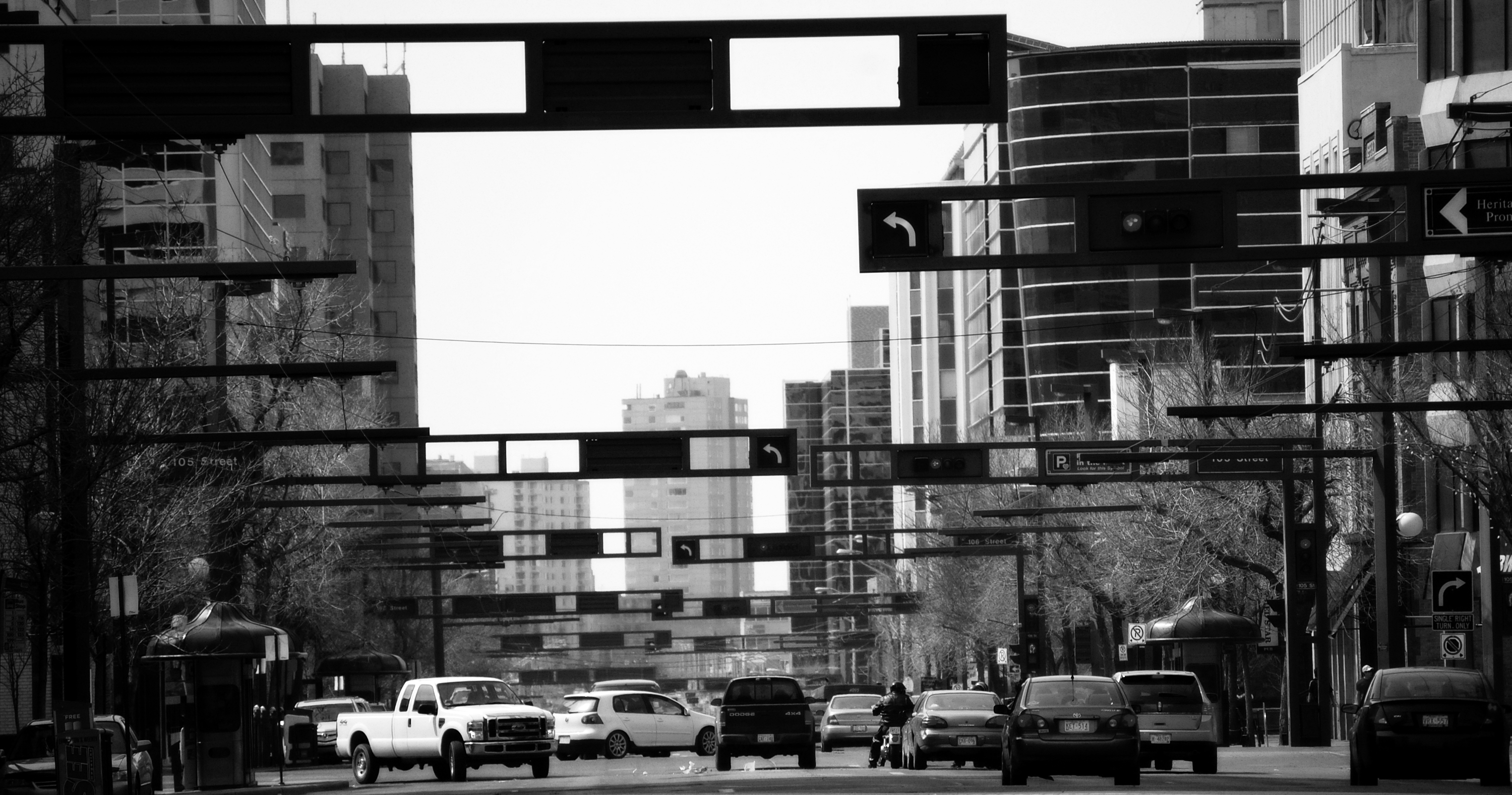 Jasper Avenue looking westbound.